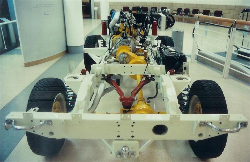 chassis of Land Rover Defender